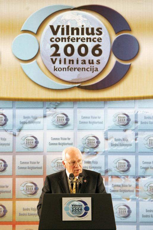 Vice President Dick Cheney delivers the keynote speech at the Vilnius Conference 2006 in Vilnius, Lithuania, on Thursday, May 4, 2006.